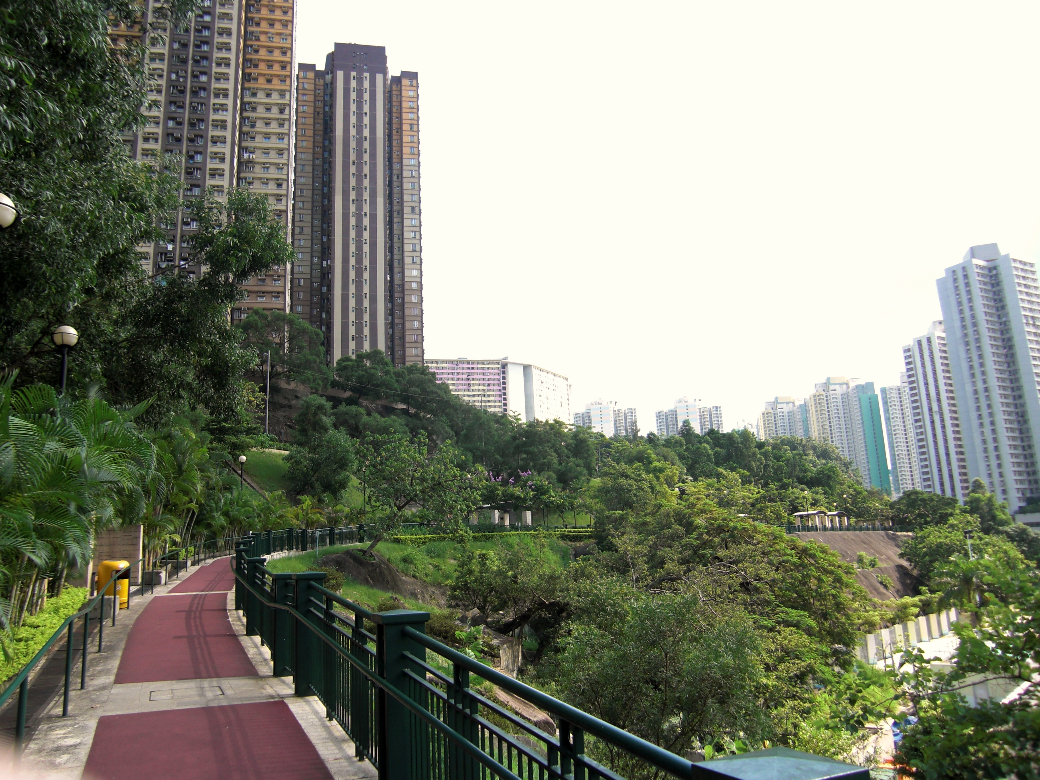 A view of the Morning Trail in Jordan Valley Playground Phase 2 Site 2 is seen.